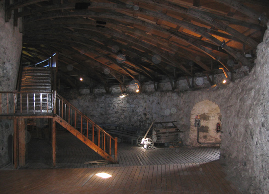 Munkholmen in Trondheim, the castle yard